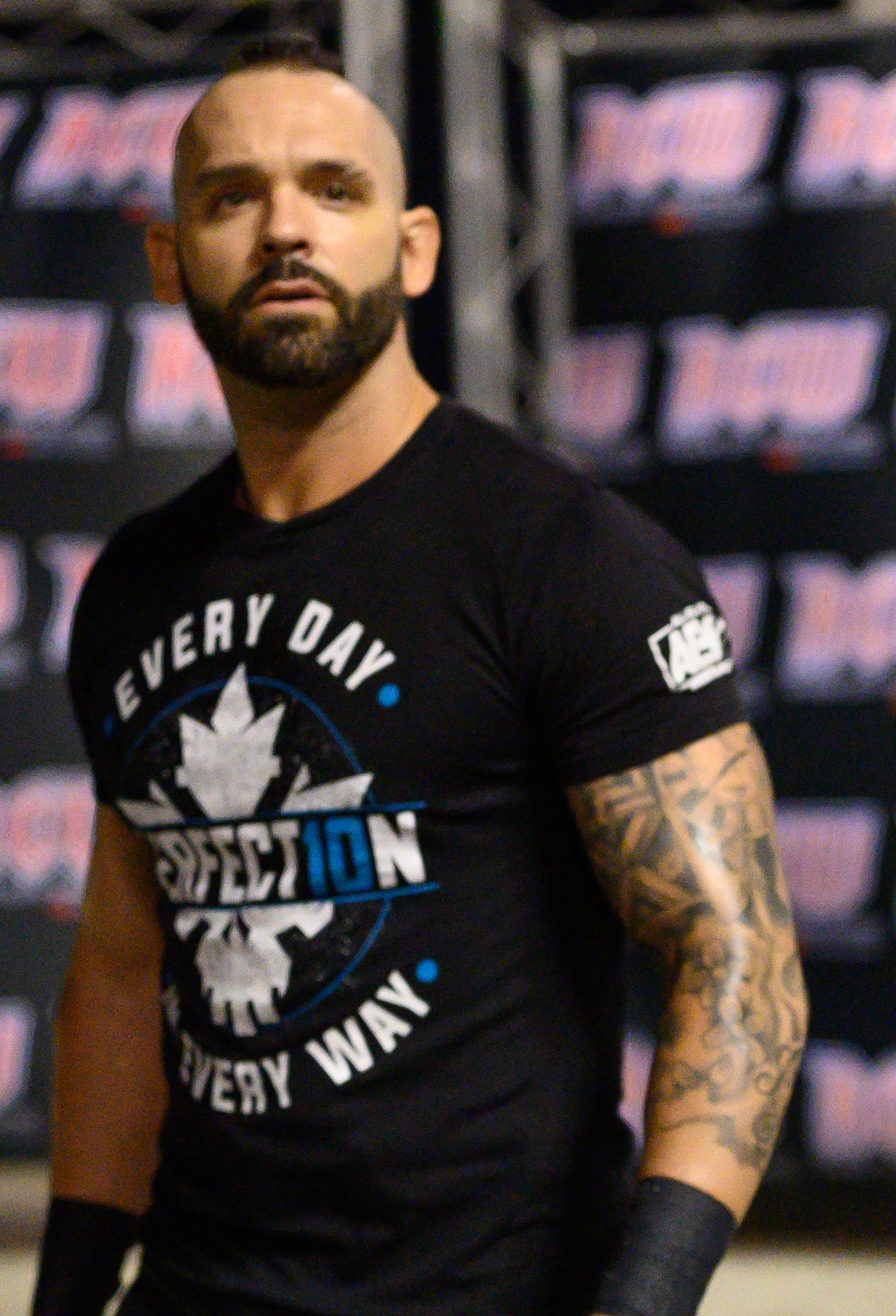 Wrestlers Shawn Spears and Tully Blanchard in July 2019 at River City Wrestling